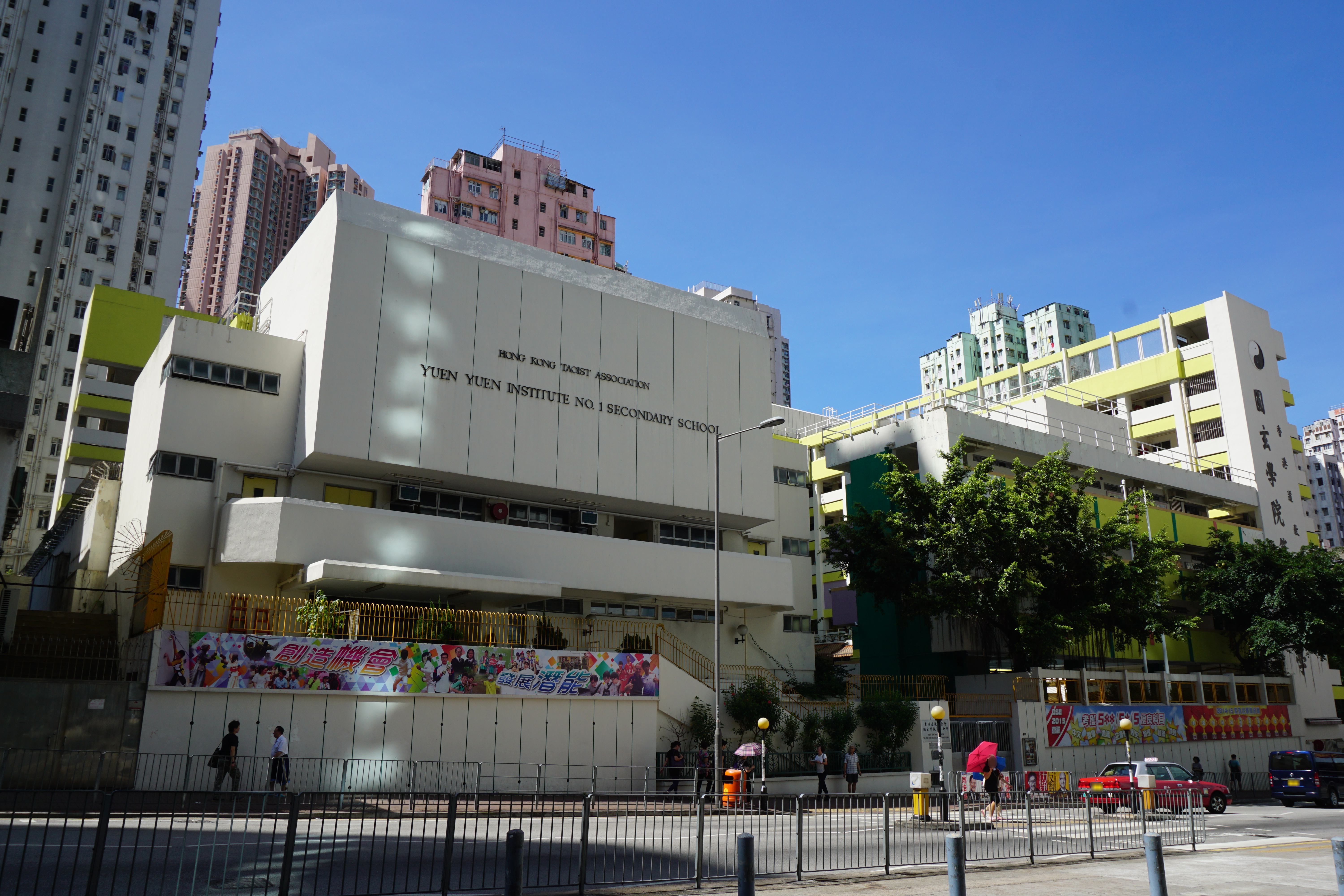 HKTA The Yuen Yuen Institute No. 1 Secondary School in Kai Chung, Hong Kong.